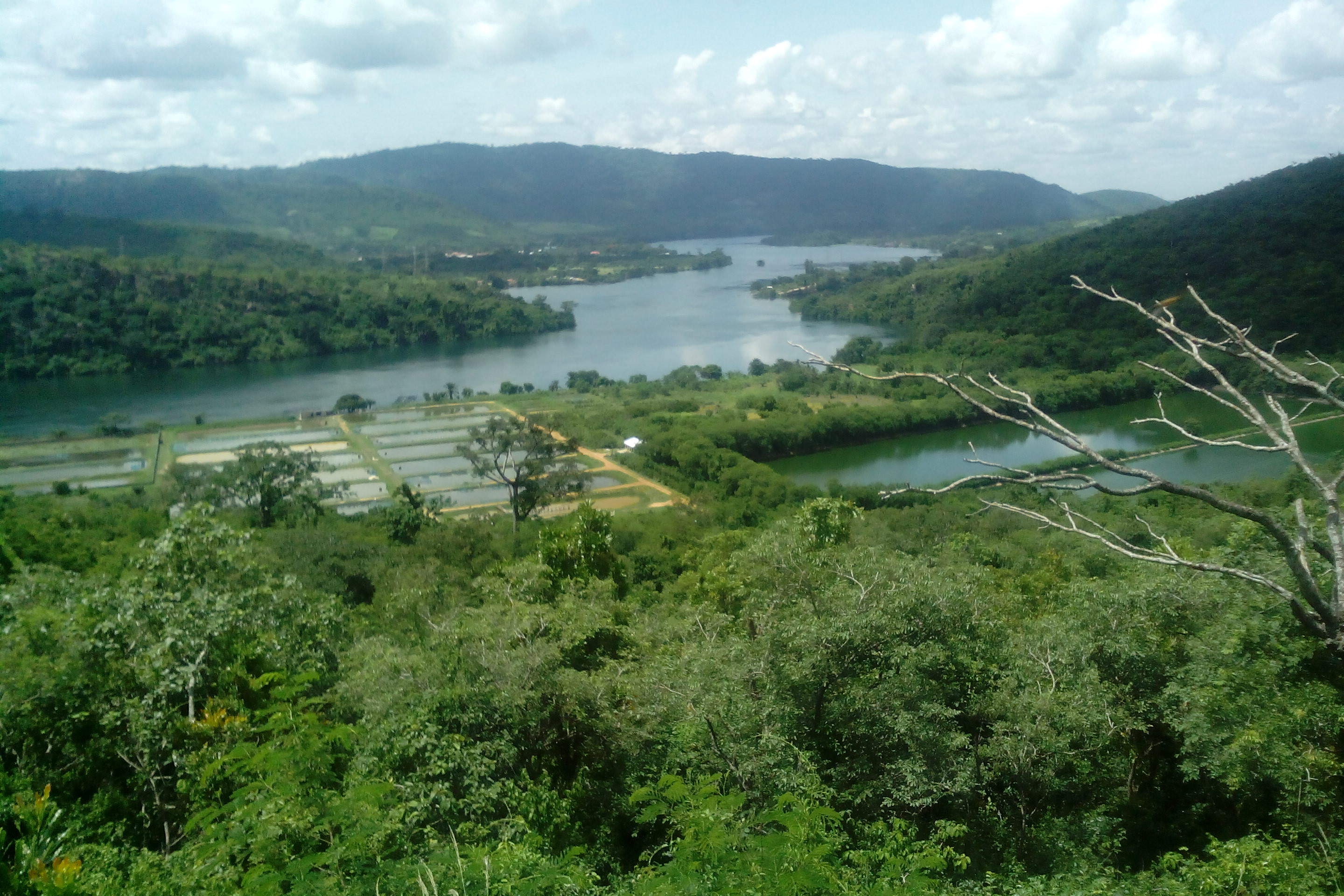 These catchy sites blew my mind. They were taking from the st. Babara's catholic church, Akosombo.